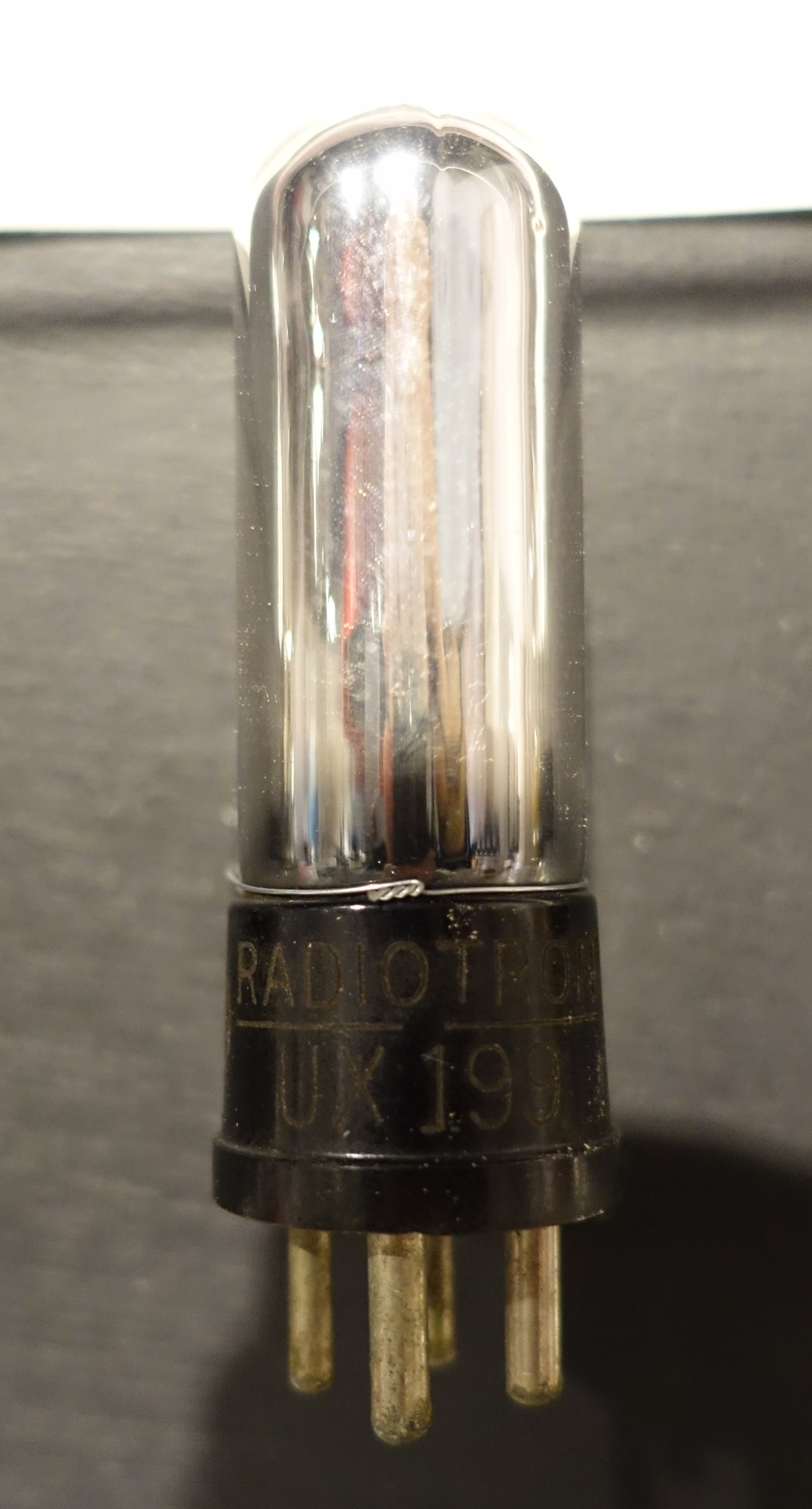 Exhibit in the National Electronics Museum, 1745 West Nursery Road, Linthicum, Maryland, USA. All items in this museum are unclassified. The museum permitted photography without restriction.